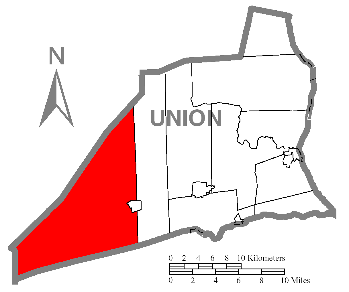 A map of Union County showing Hartley Township, Pennsylvania (alternate) highlighted on the map.